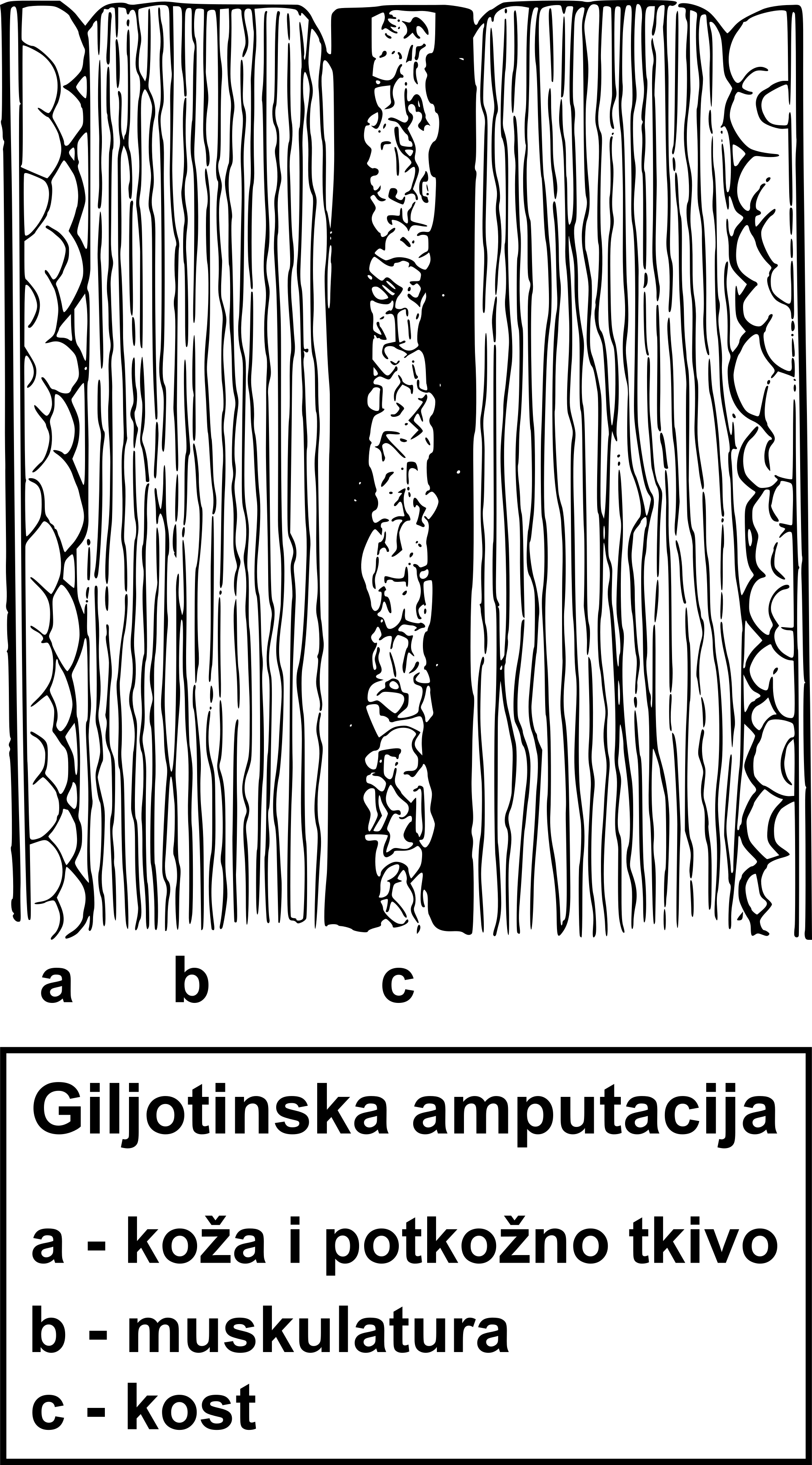 Guillotine amputation